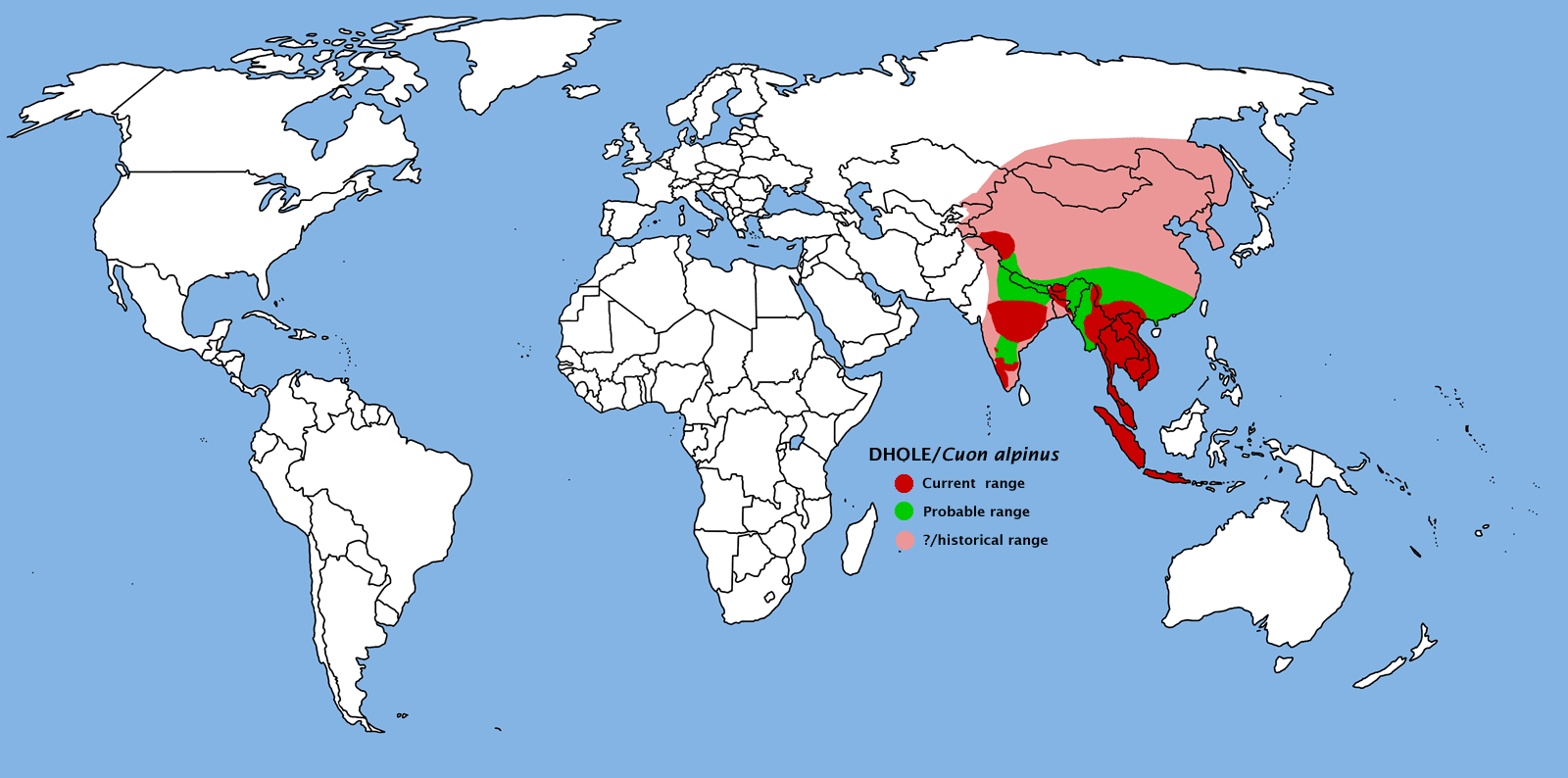 Map of Cuon alpinus (Dhole) distribution in Asia